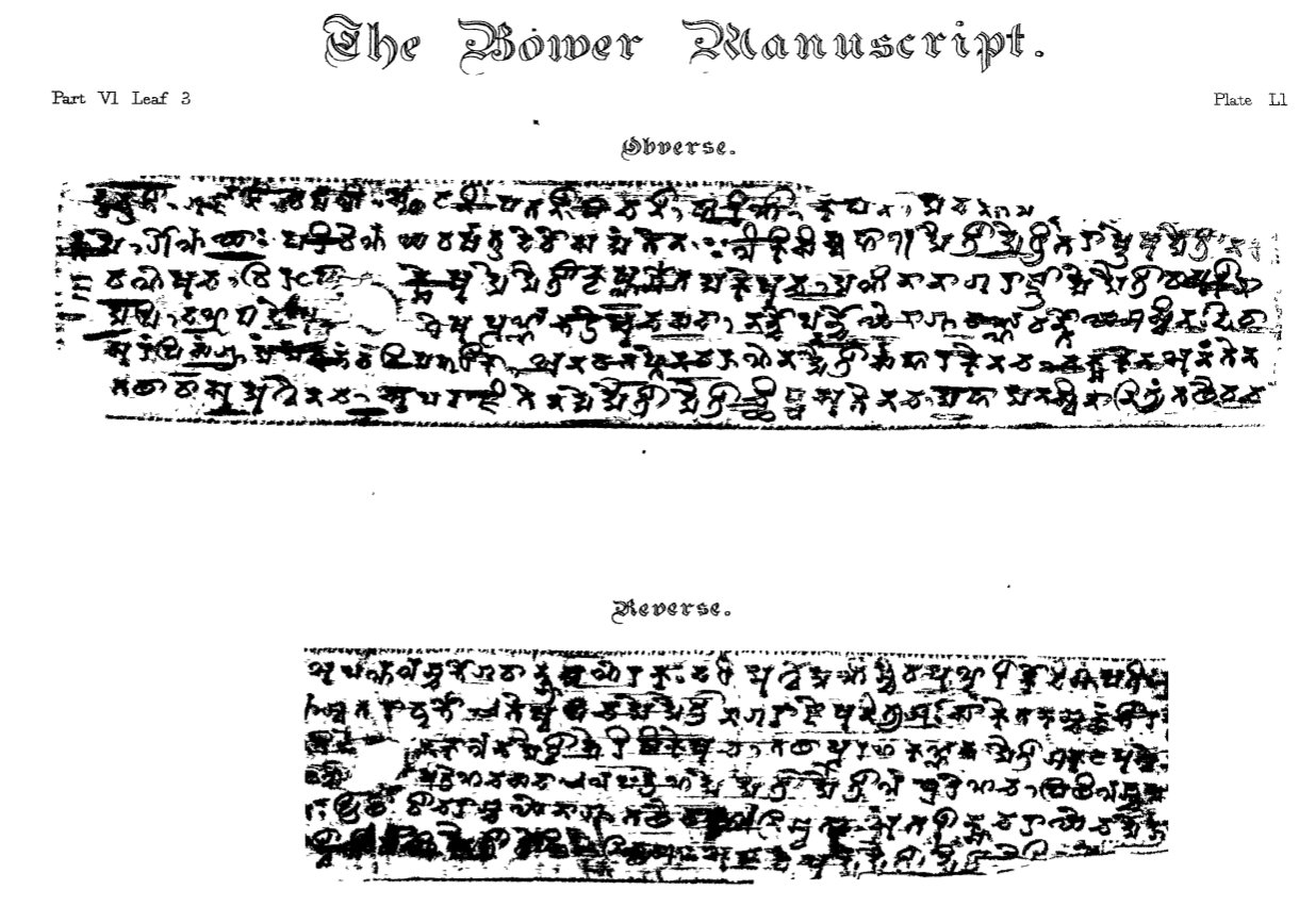 manuscript photo